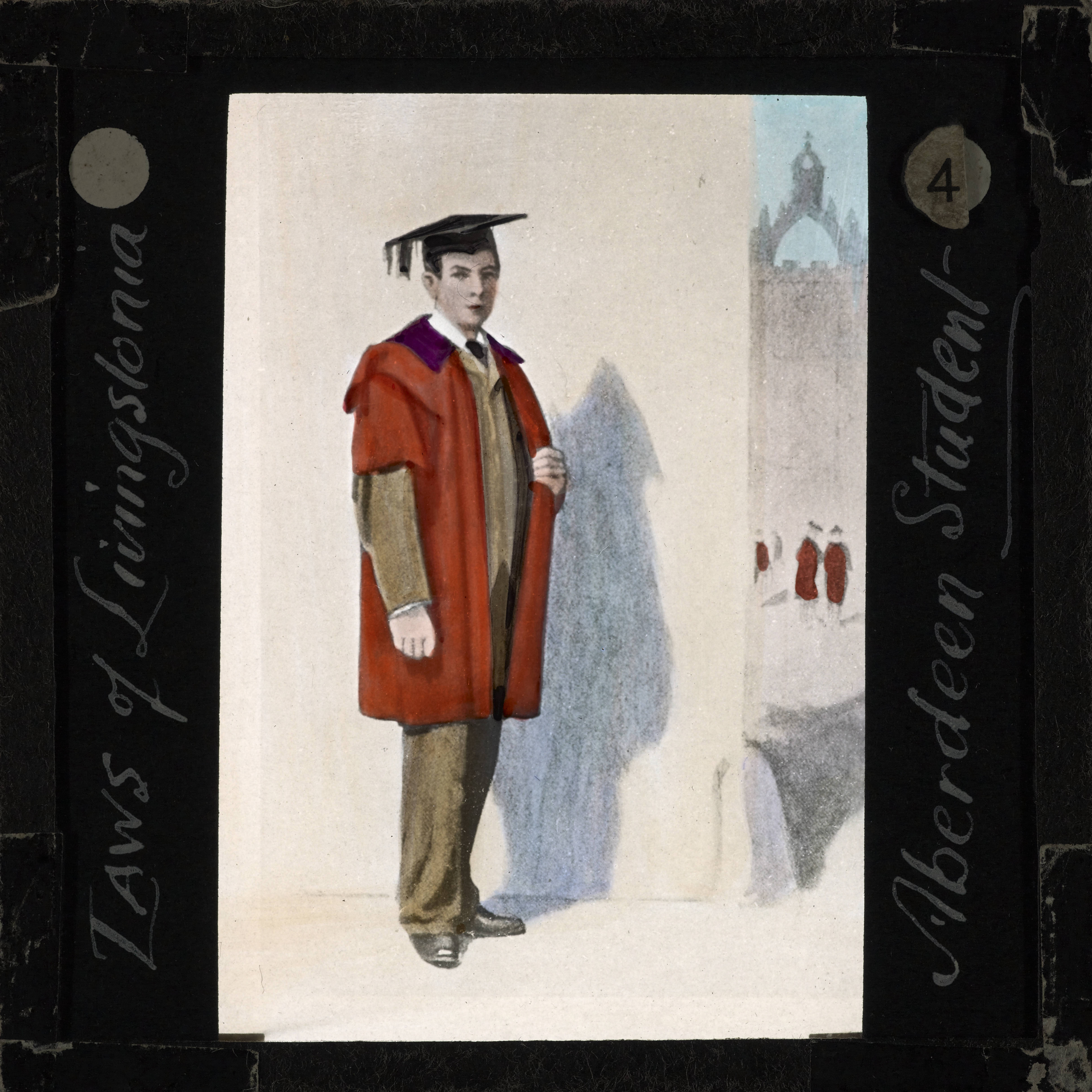 Aberdeen Student, Scotland, [s.d.] "Aberdeen Student, Laws of Livingstonia" Photograph of a young man dressed in a red graduation gown and mortar board. An image of Kings College, Aberdeen University, can be seen in the background. The Scottish missionary Dr Robert Laws was born and educated in Aberdeen.; This belongs to a series of Church of Scotland Foreign Missions Committee lantern slides relating to Dr Robert Laws (1851-1934) the Scottish Missionary. In 1875, inspired by David Livingstone (1813-1873), Laws travelled to Malawi and was involved in the foundation of the mission station of Livingstonia on the shores of Lake Nyasa. During the succeeding 50 years he also established a network of hundreds of schools. In 1908 Laws was elected moderator of the General Assembly of the United Free Church of Scotland. Photographer: Unknown Subject (personal name): Laws, Robert, 1851-1934 Filename: imp-cswc-GB-237-CSWC47-LS5-1-004.tif Coverage date: 1875/1925 Part of collection: International Mission Photography Archive, ca.1860-ca.1960 Type: images Part of subcollection: Photographs from the Centre for the Study of World Christianity, University of Edinburgh, U.K., ca.1900-ca.1940s Repository name: Centre for the Study of World Christianity Archival file: impaunpub_Volume7/1508.url Geographic subject (city or populated place): Aberdeen Repository address: The University of Edinburgh School of Divinity, New College, Mound Place, Edinburgh EH1 2LX, United Kingdom Geographic subject (country): Scotland Format (aacr2): 1 lantern slide : 8 x 8 cm. Geographic subject (continent): Europe Rights: Contact the repository for details. Part of series: Laws of the Pioneer LS5/1 Repository Subject (lcsh Keyword): Education Date created: 1875/1925 Publisher (of the digital version): University of Southern California. Libraries Subject (aat genre): portrait Format (aat): lantern slides Legacy record ID: impa-m68560 Access conditions: File: GB 237 CSWC47/LS5/1/4